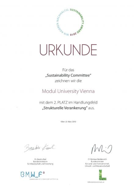 MODUL University is very proud to have been honoured with the Sustainability Award and is fully dedicated to continuously improving its performance in the area of sustainability.